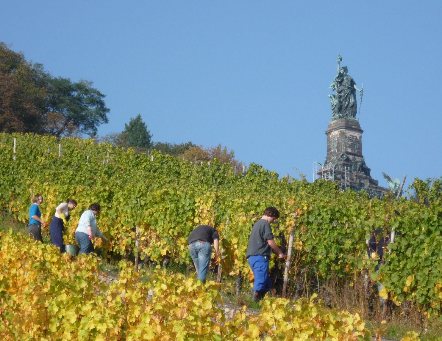 Vintage below the Niederwalddenkmal between Assmannshausen and Rüdesheim, Germany